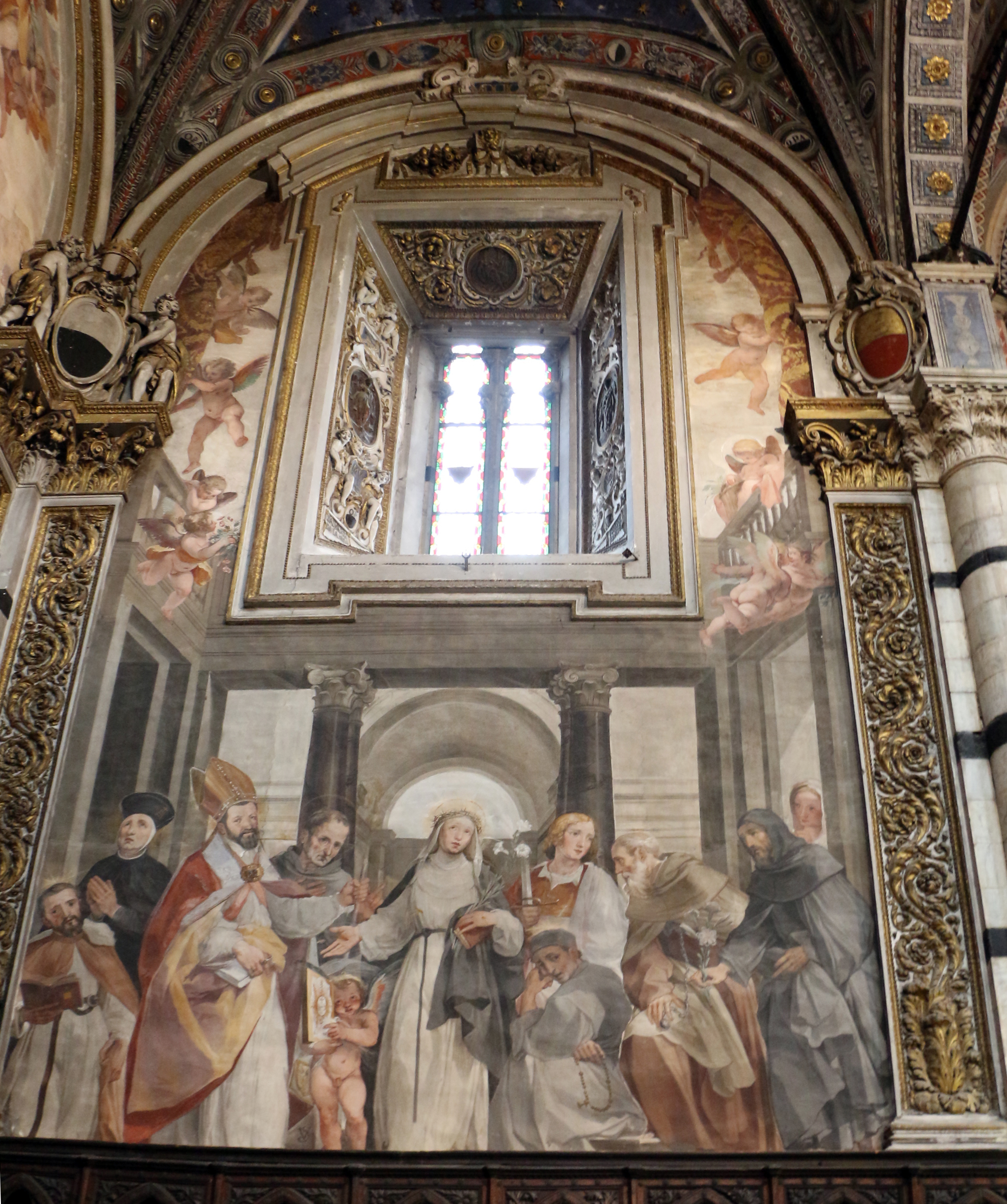 Cathedral (Siena) - Choir